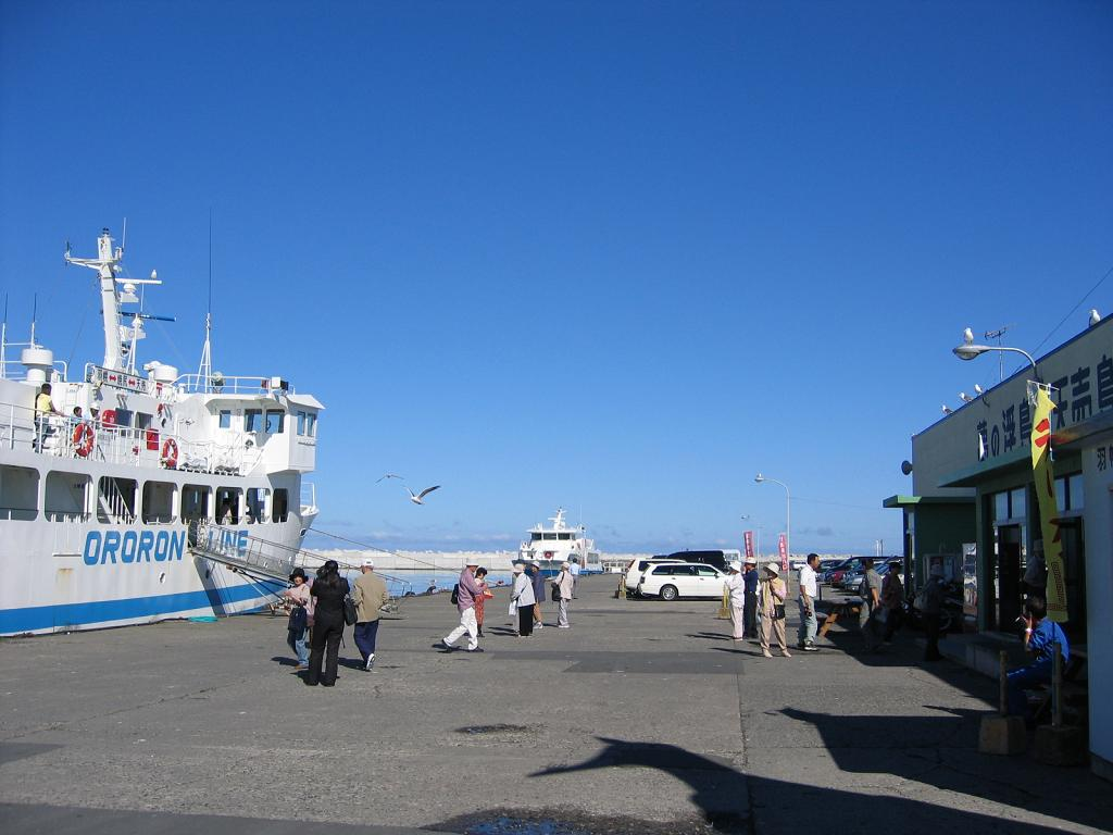 The port of Haboro, Hokkaidō, Japan.